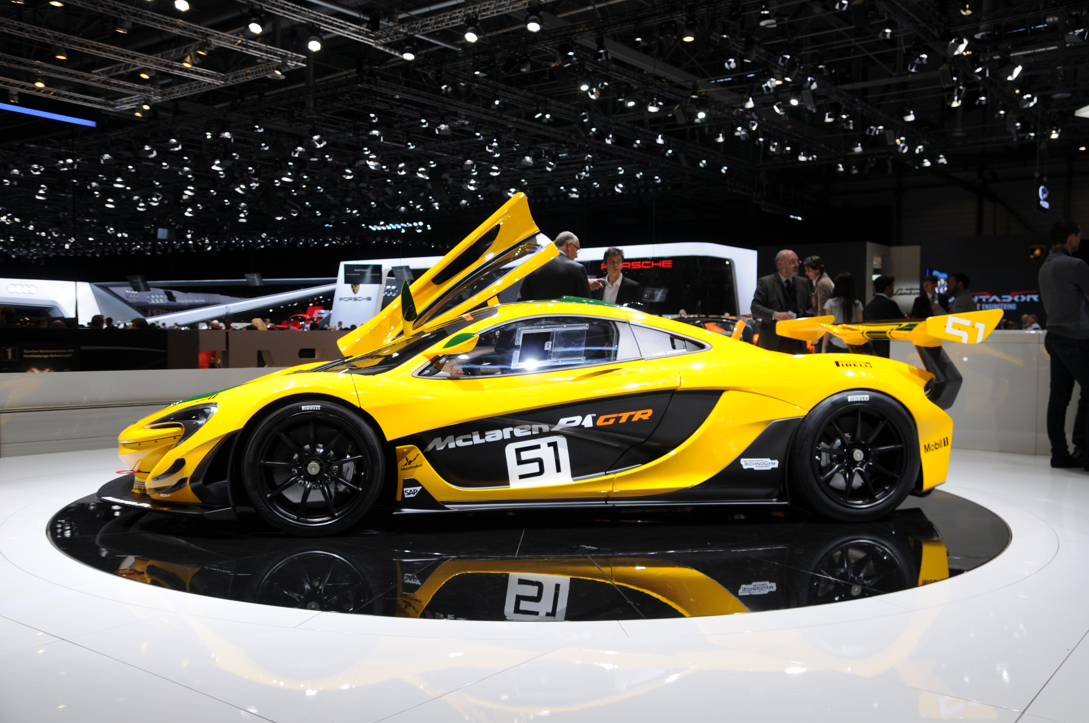 Geneva Motor Show 2015 (photo taken on the first press day)